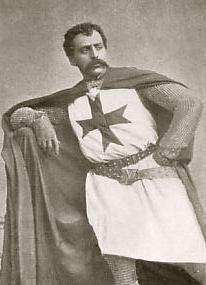 Photograph taken in 1891